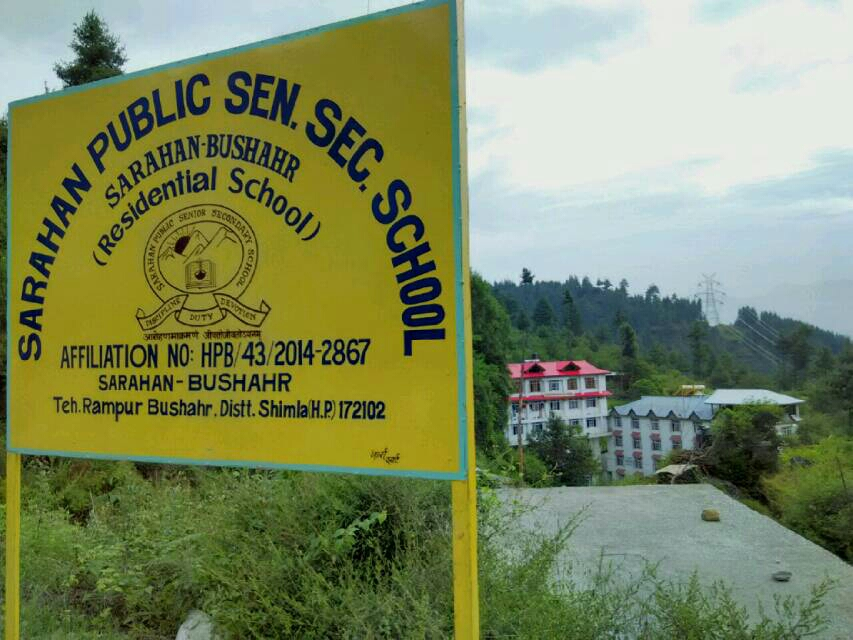 Sarahan Senior Secondary Public School.